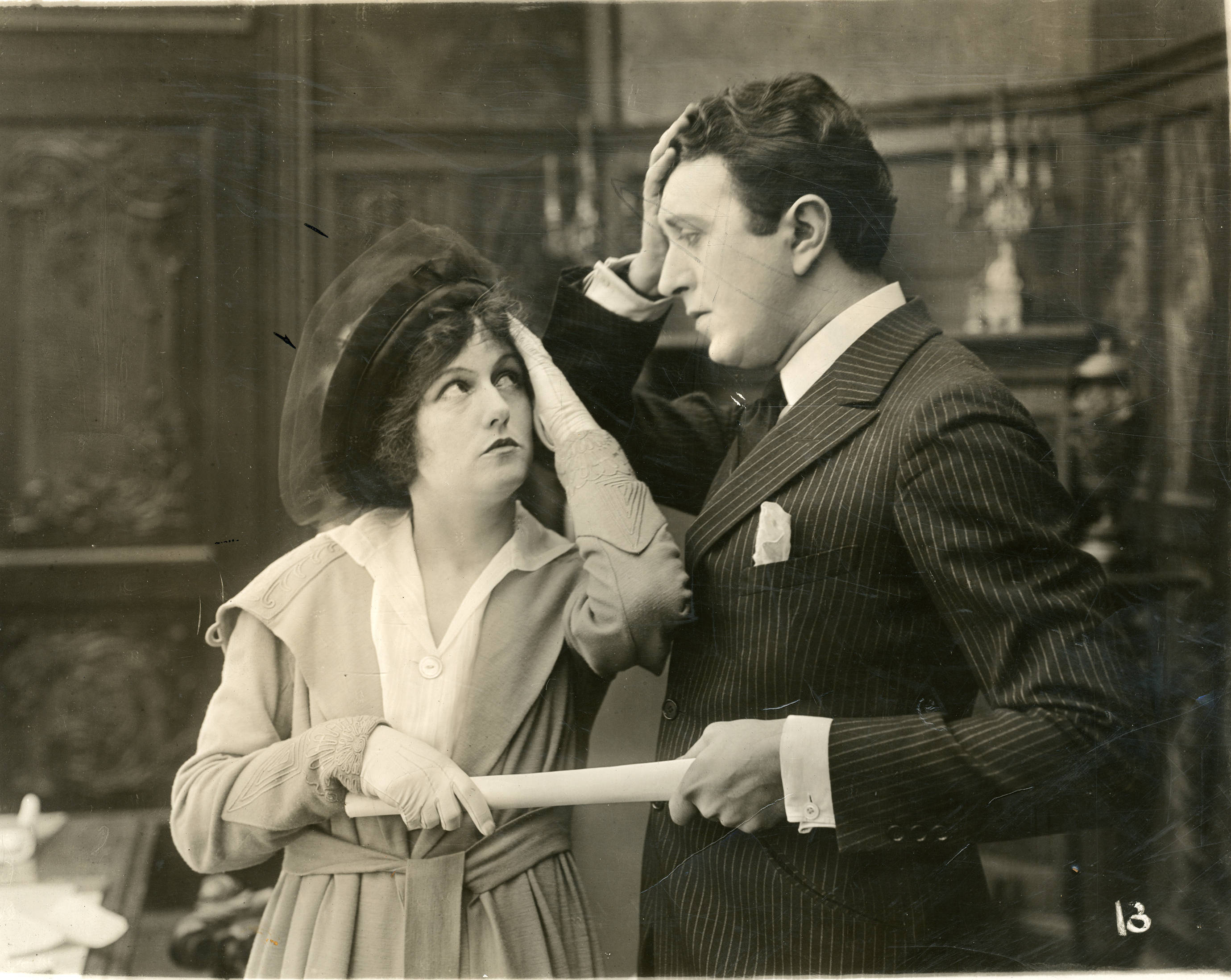 A scene from the American drama film Bonnie Annie Laurie (1918), which played at the Colonial Theater, Seattle. Includes Peggy Hyland and Henry Hallam. Date stamped Mar. 4, 1918. Subjects: motion pictures, actresses